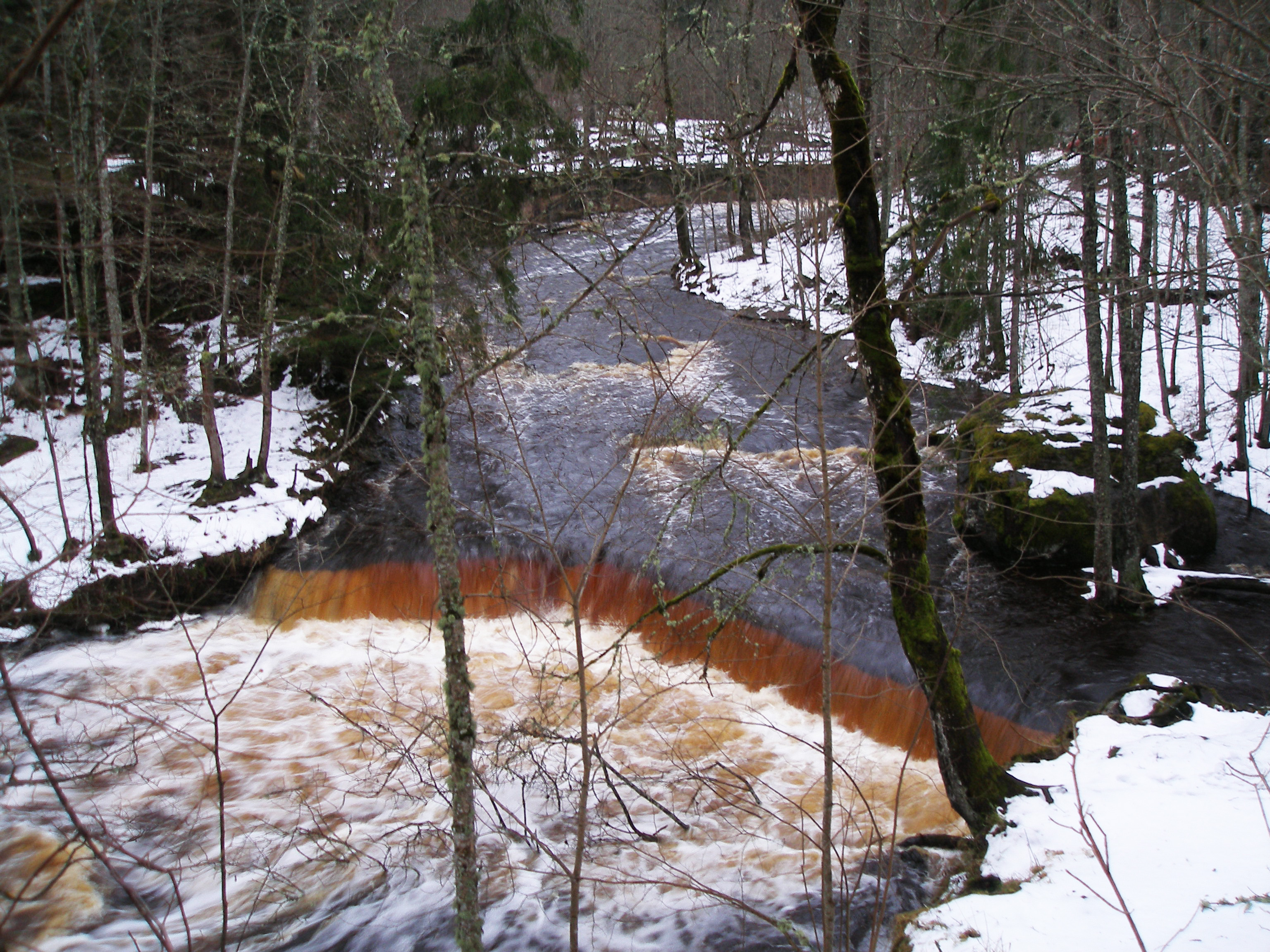 Nõmmeveski waterfall on Valgejõgi in winter 2008.